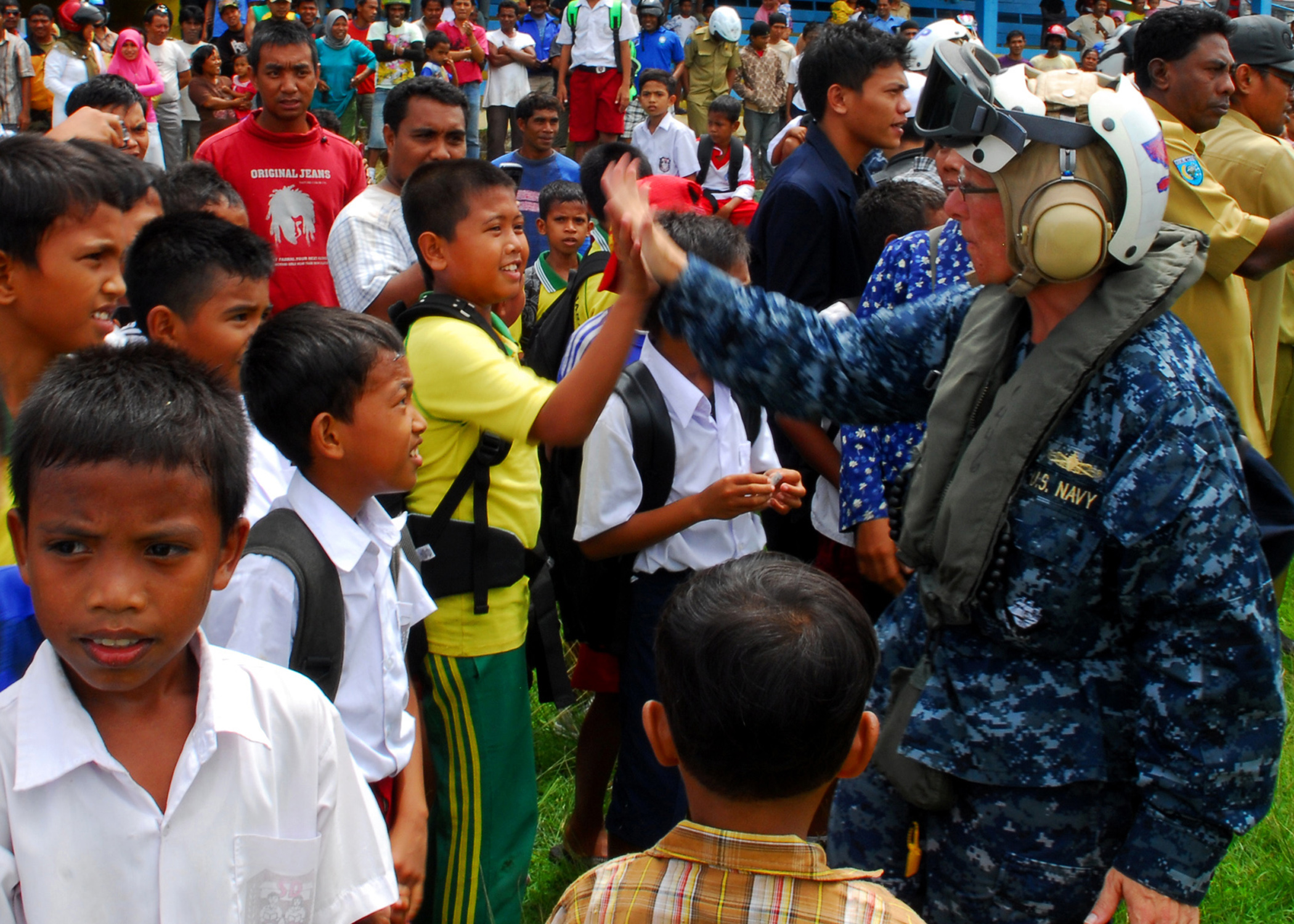 TIDORE, Indonesia (July 20, 2010) Capt. Lisa M. Franchetti, commander of Pacific Partnership 2010, embarked aboard the Military Sealift Command hospital ship USNS Mercy (T-AH 19), gives a high-five during a medical civic action program event in Tidore, Indonesia. Mercy is in the North Maluku Islands conducting Pacific Partnership 2010, the fifth in a series of annual U.S. Pacific Fleet endeavors conducted in Indonesia as a disaster relief exercise aimed at strengthening regional partnerships. (U.S. Navy photo by Mass Communication Specialist 2nd Class Eddie Harrison/Released)